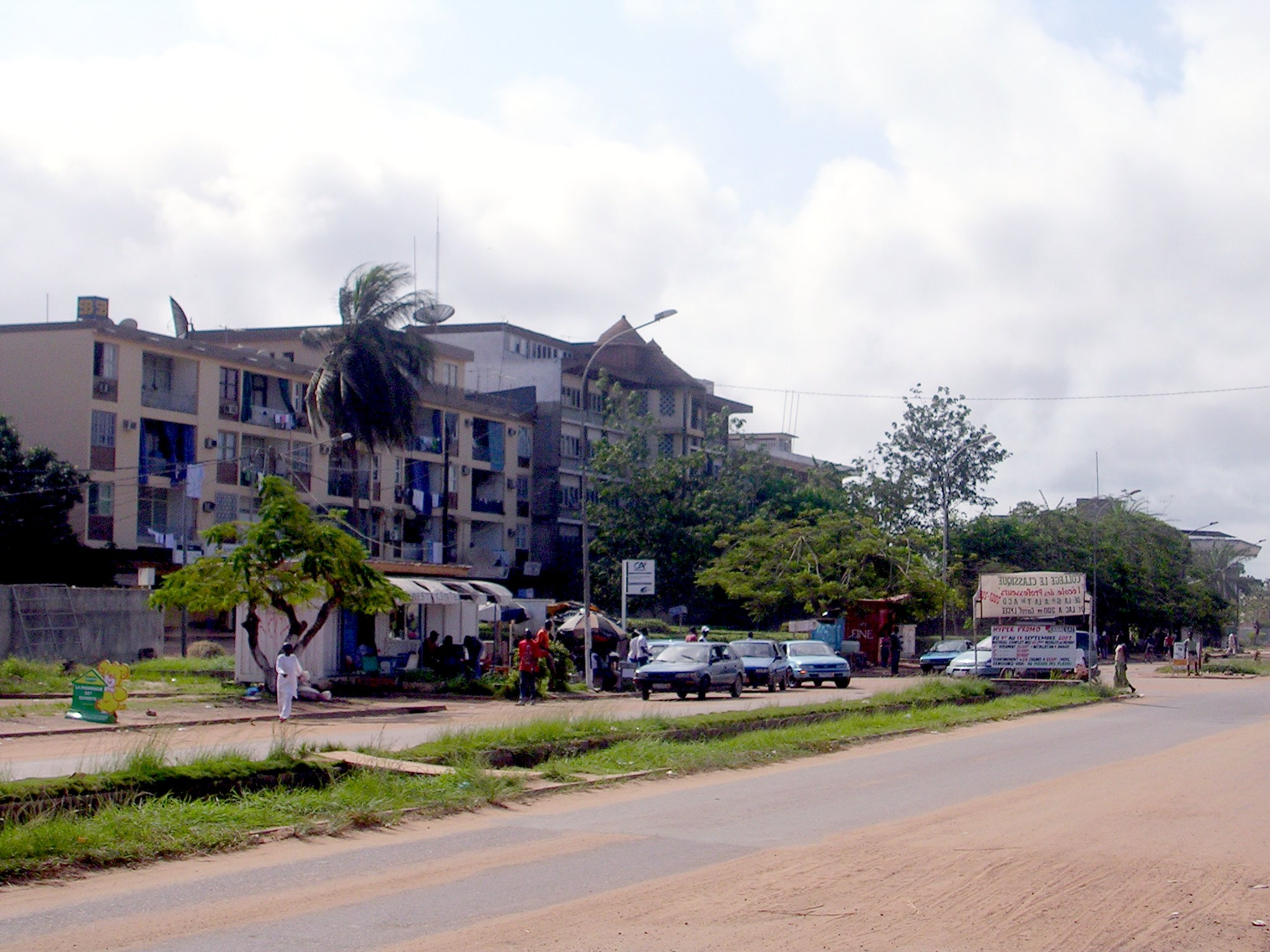 The streets of San Pédro